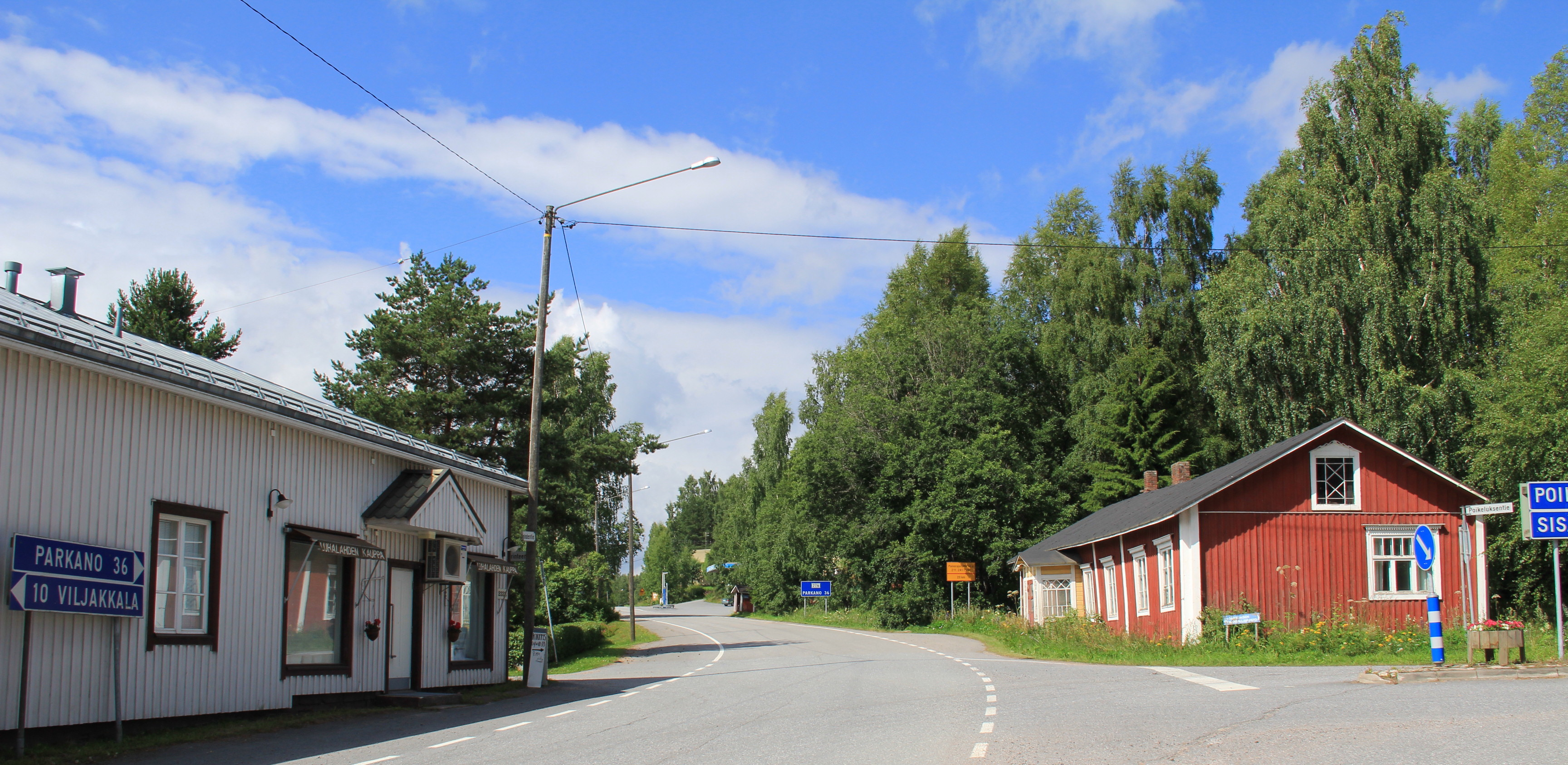 Luhalahti village, Ikaalinen, Finland. - A view from the center of Luhalahti.